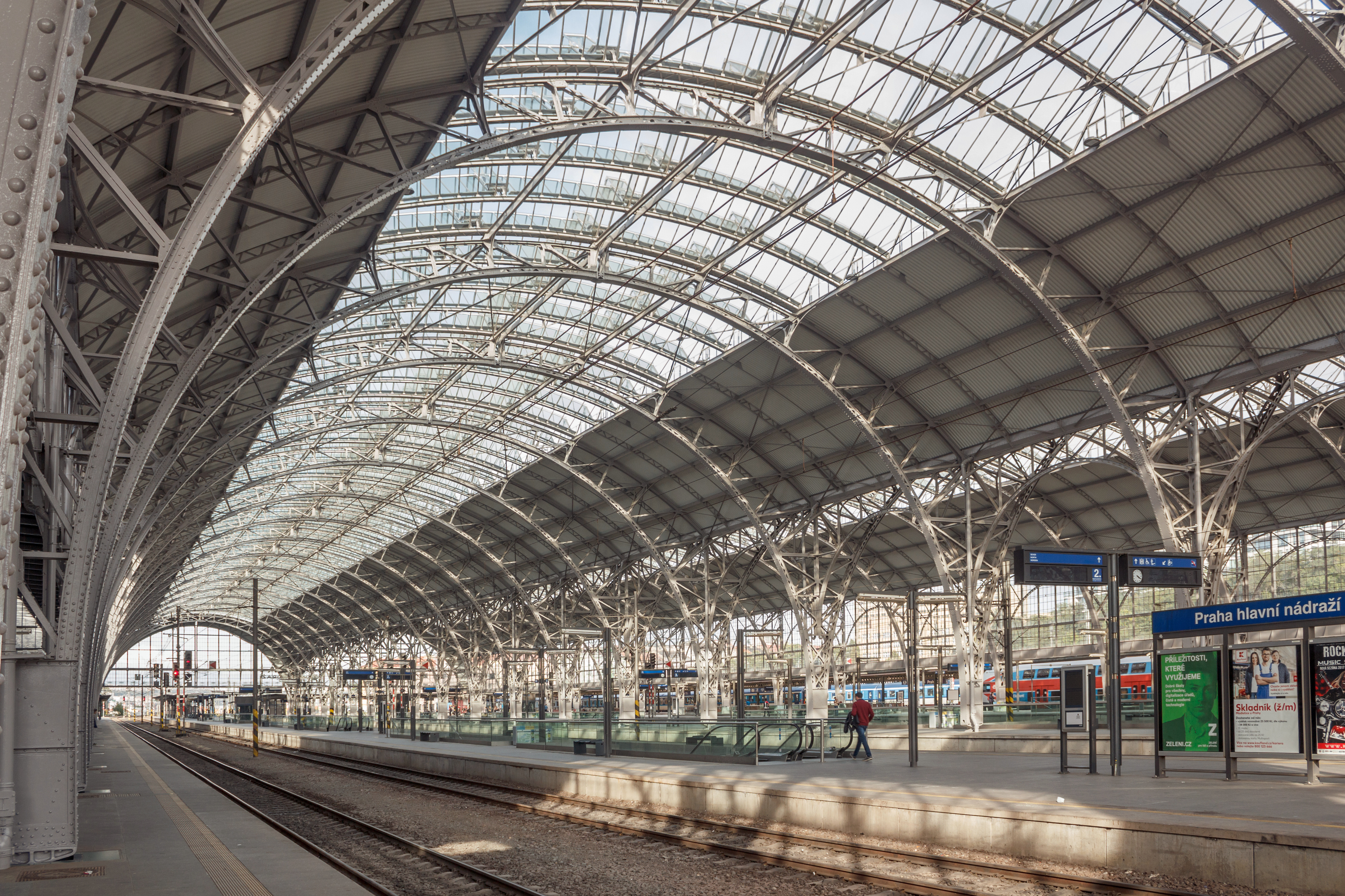 Historical hall from 1906 after completion of the overall reconstruction and roof replacement.